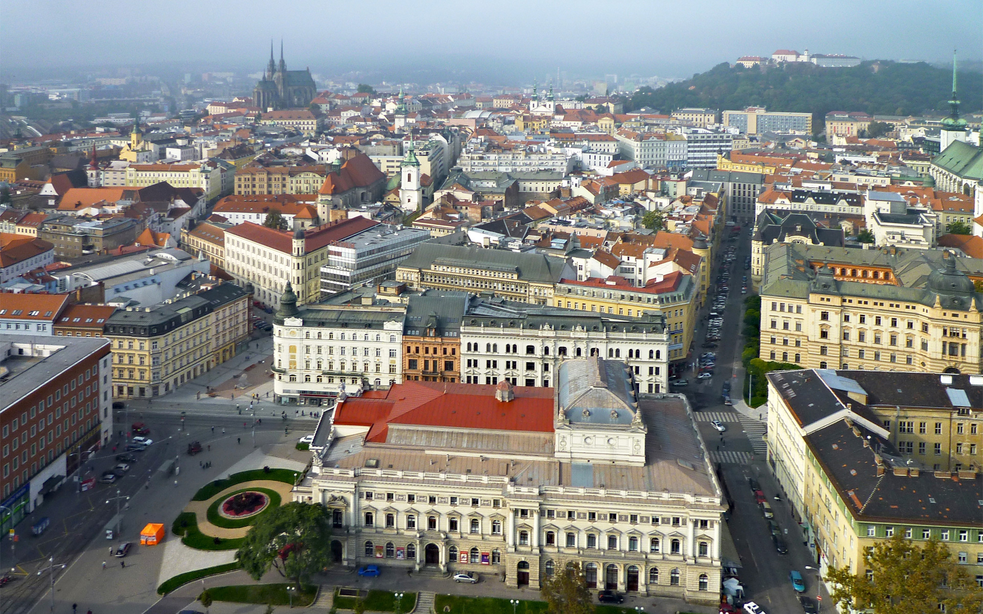 Partial view of the historical centre of the City of Brno, Czech republic, EU